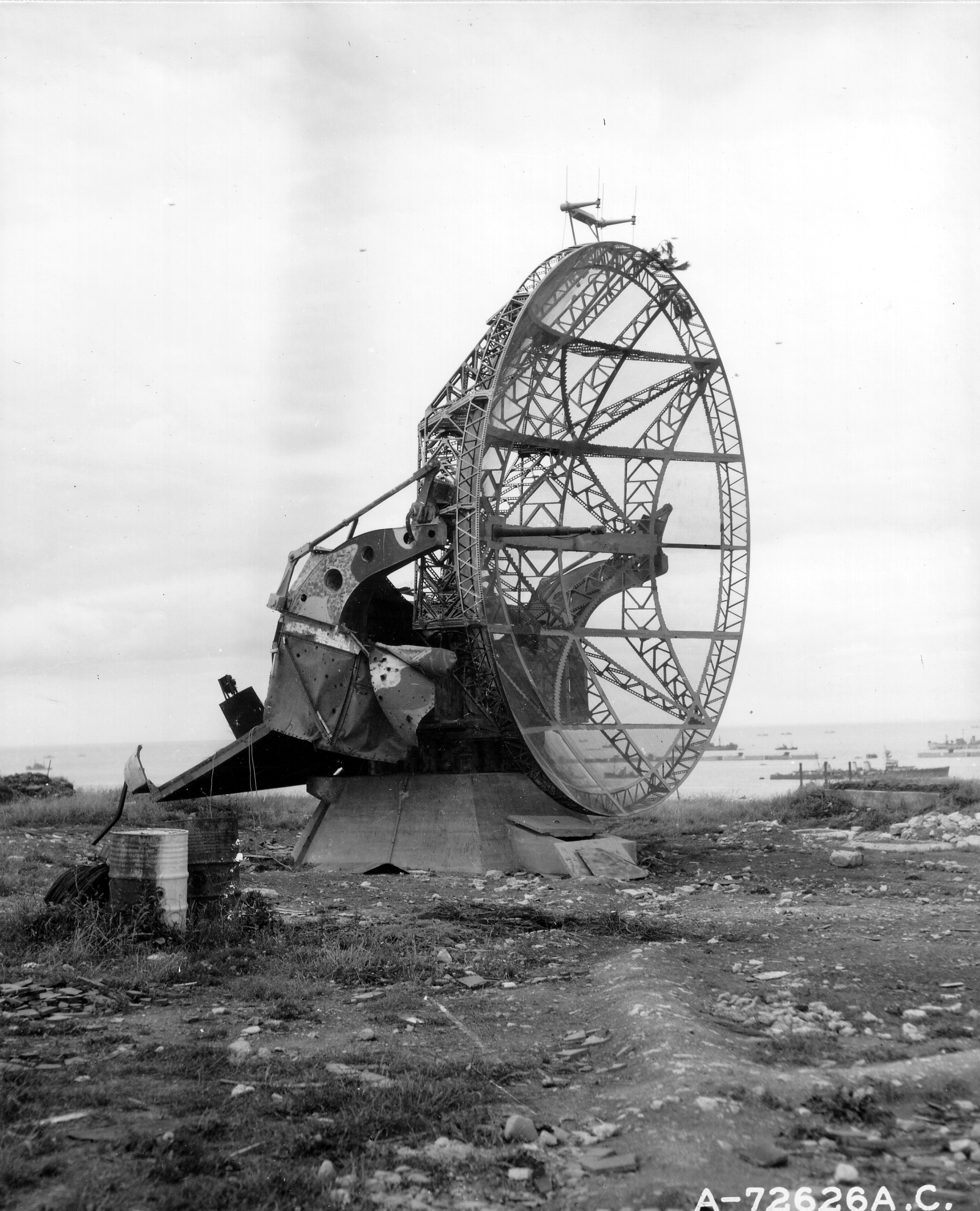 German radar FuMO 214 Würzburg-Riese installed on the cliff of Arromanches at Stützpunkt 42 (22 June 1944)